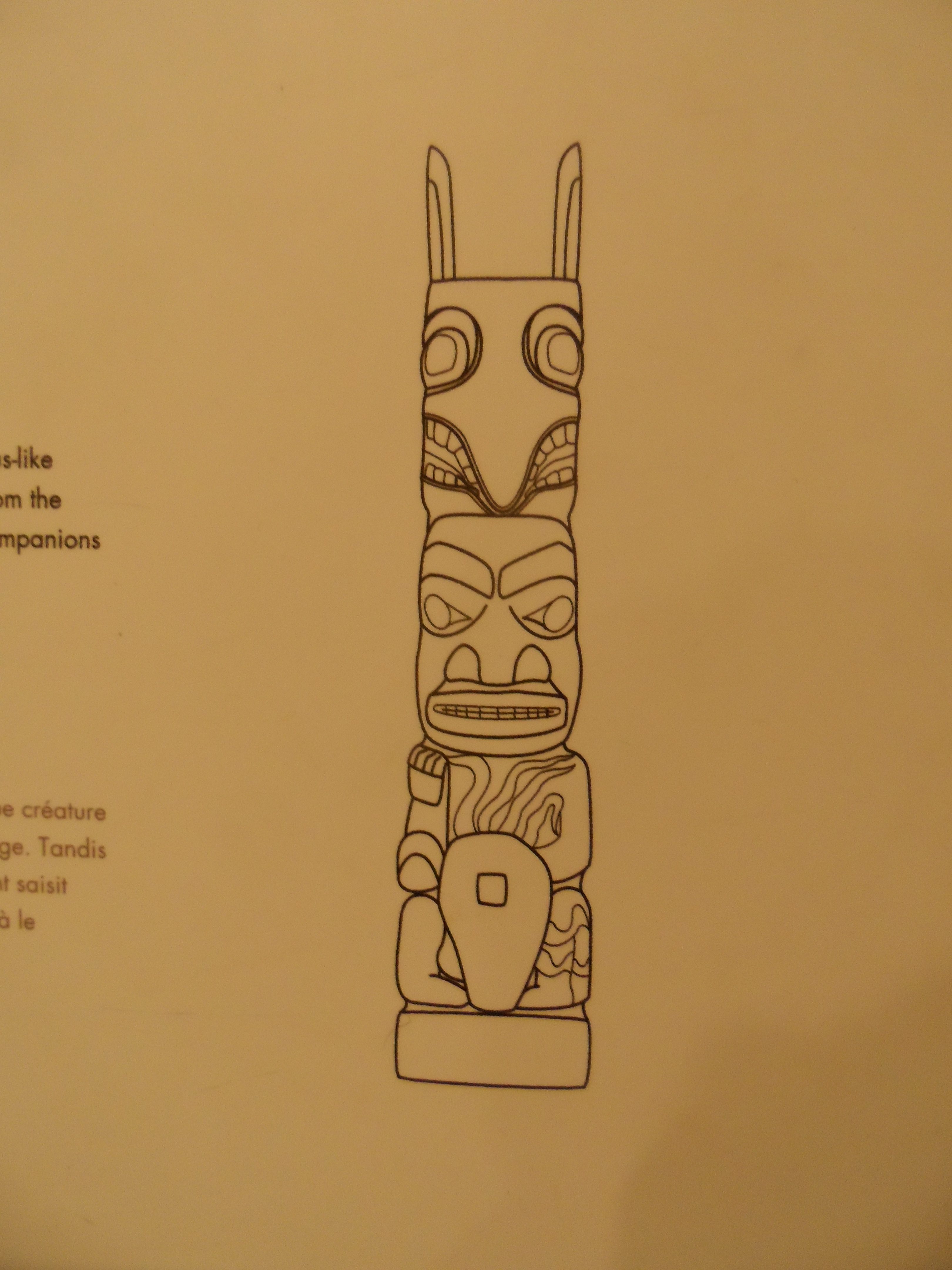 Pole of "Sagaween" Upper middle portion